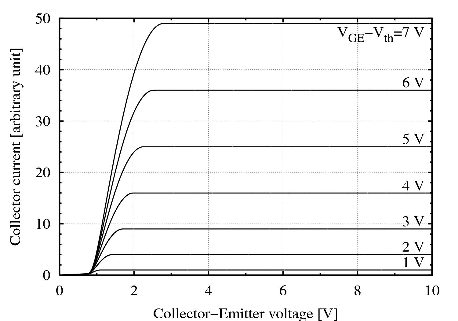 Static characteristic of a imaginary Insulated Gate Bipolar Transistor (IGBT)